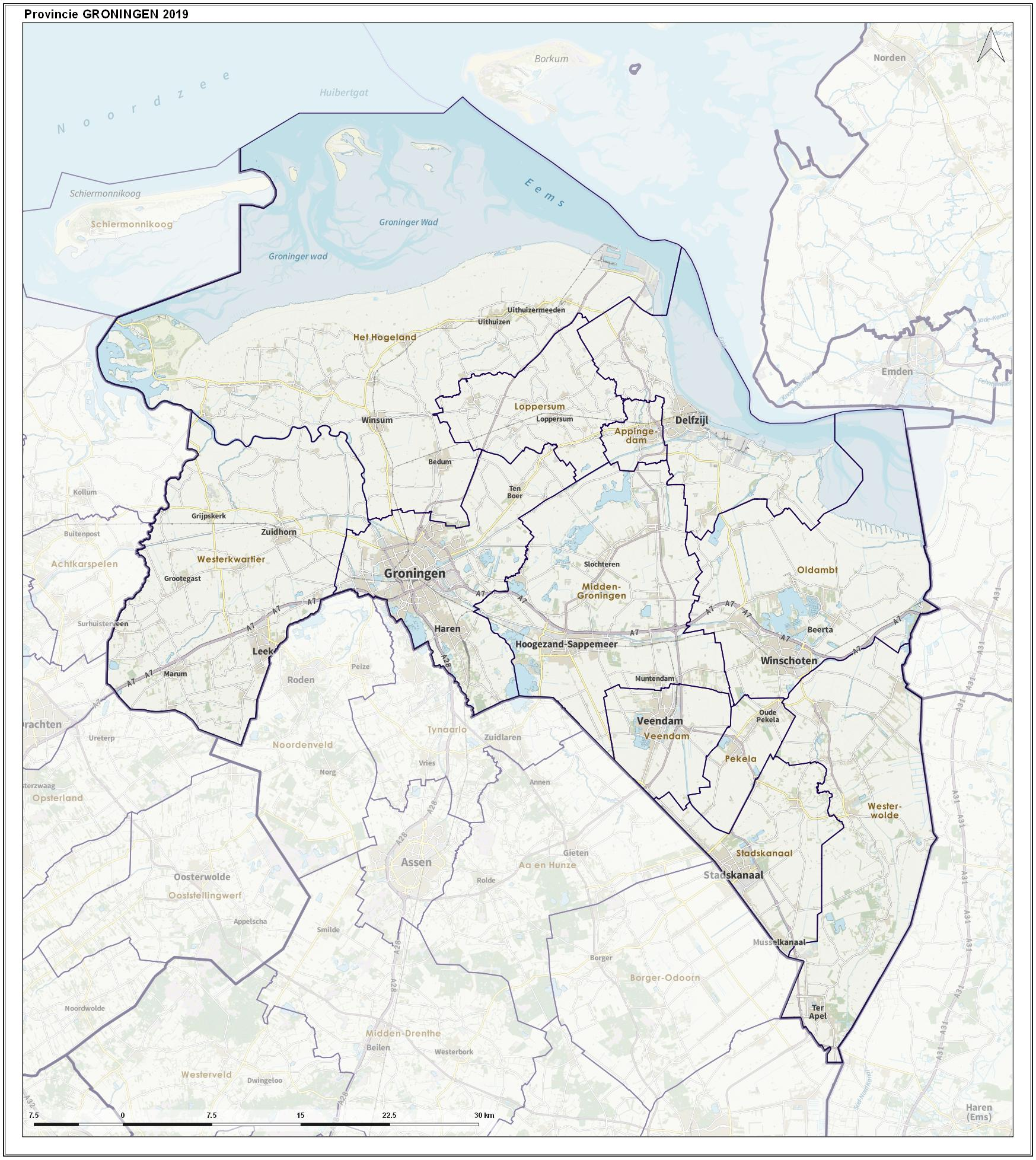 Overview map of the province, including municipal borders, largest places and major infrastructure.